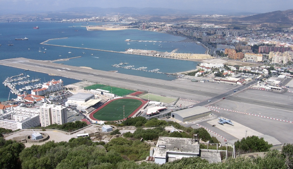 Gibraltar: runway of airport; across runway there is a road. When aircrafts are starting or landing in Gibraltar, red lights stop car traffic on this road.Just ca. 200 m after the airport, parallel to runway, runs the border line between Gibraltar and Spain.